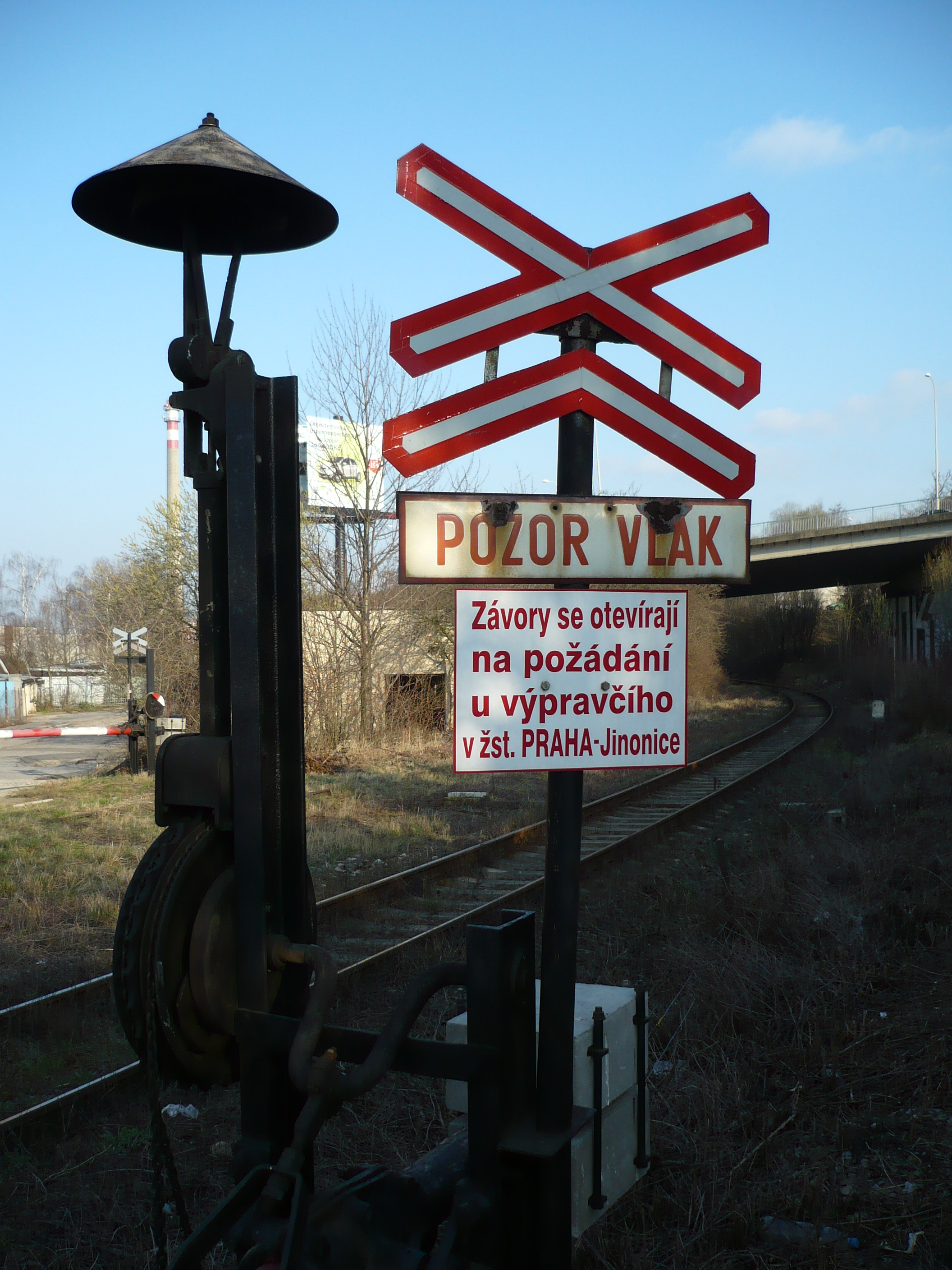 Level crossing in Jinonice with boom barrier permanently down